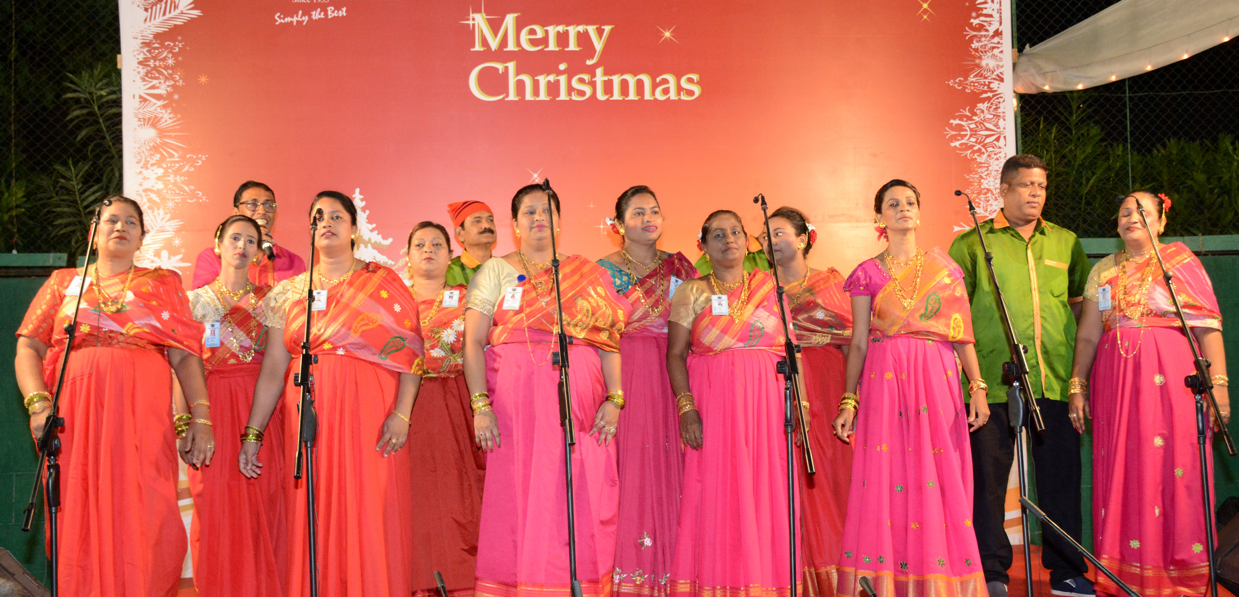 Chimbai Ladies Performing at Bandra Gymkhana